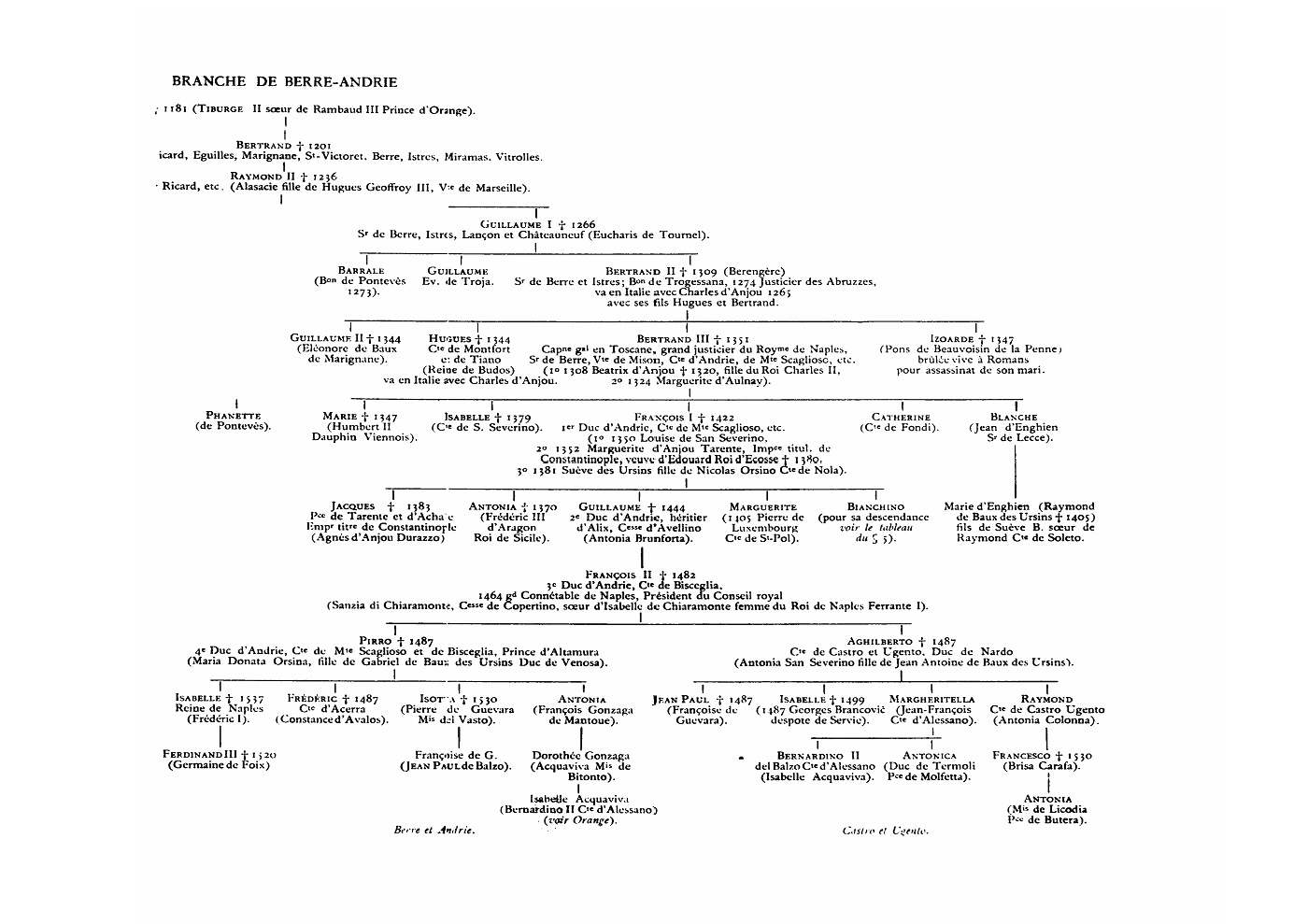 Rama de Andria de los Señores del Balzo Genealogy of the Lords of Baux of Andria